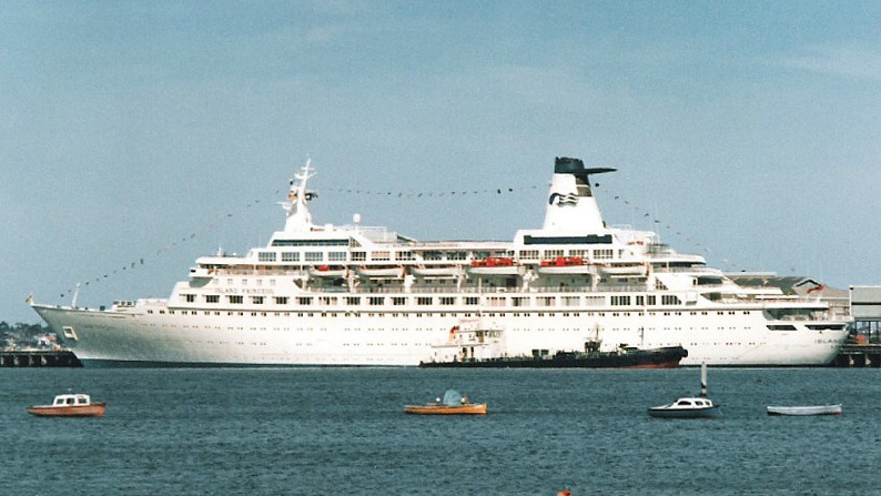 Island Princess Station Pier Melbourne 1986 Author Paul Dashwood IMO number: 7108514 MMSI: 310382000 Call sign: ZCDG2 Gross tonnage: 20.186 tons Built in 1972 by Rheinstahl Nordseewerke, Emden, Germany Former names since 1975 Nov 11 Island Venture since 1999 Apr 05 Island Princess since 2001 Aug 24 Hyundai Pungak Platinum